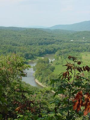 The South Branch Potomac River viewed from Frenches Station Road near South Branch Depot in Hampshire County.